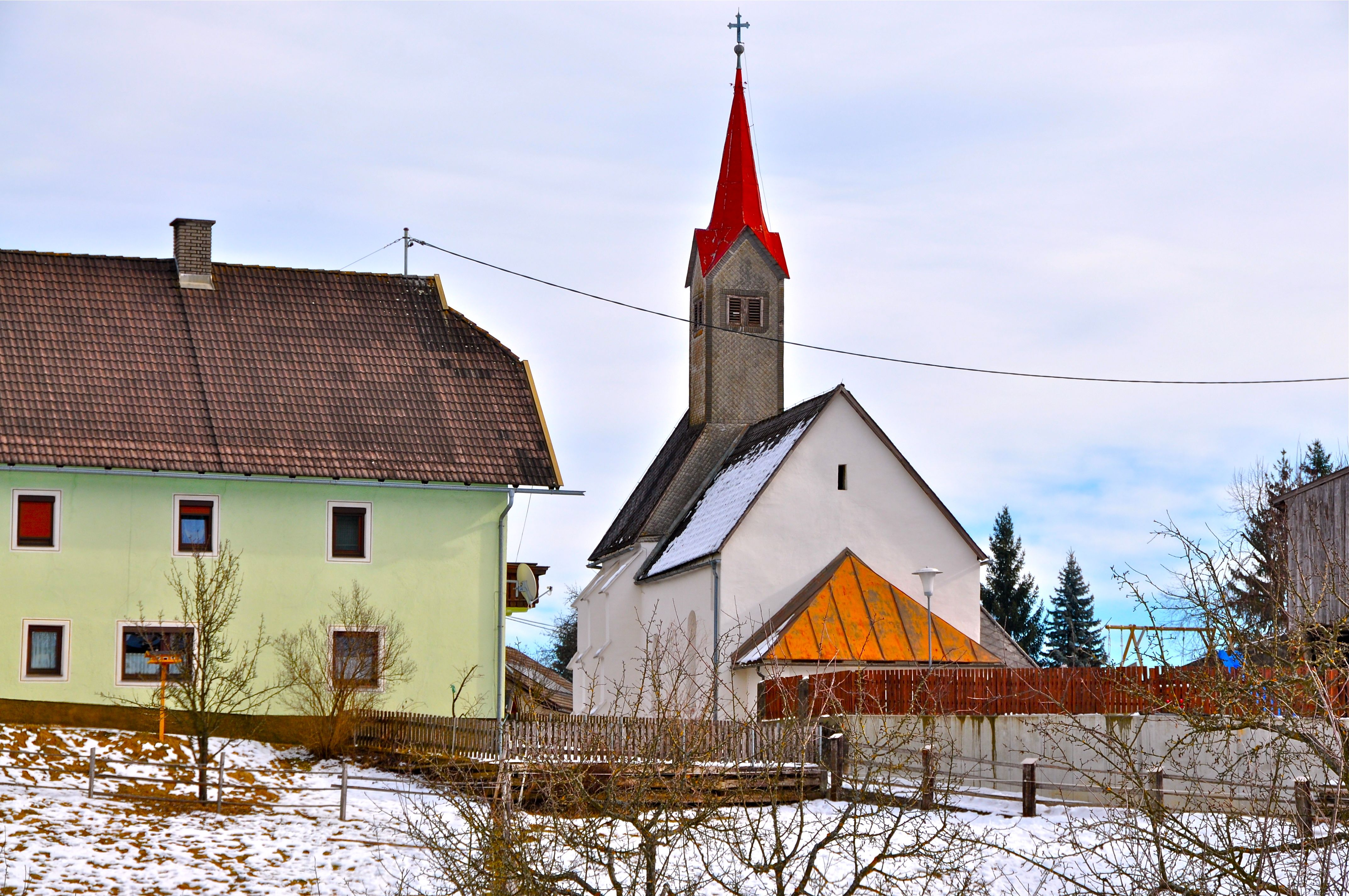 Subsidiary church Saint George in the locality Sankt Georgen, municipality Villach, Carinthia / Austria / EU